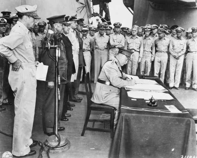 General Thomas Blamey signs the Japanese instrument of surrender on behalf of Australia.